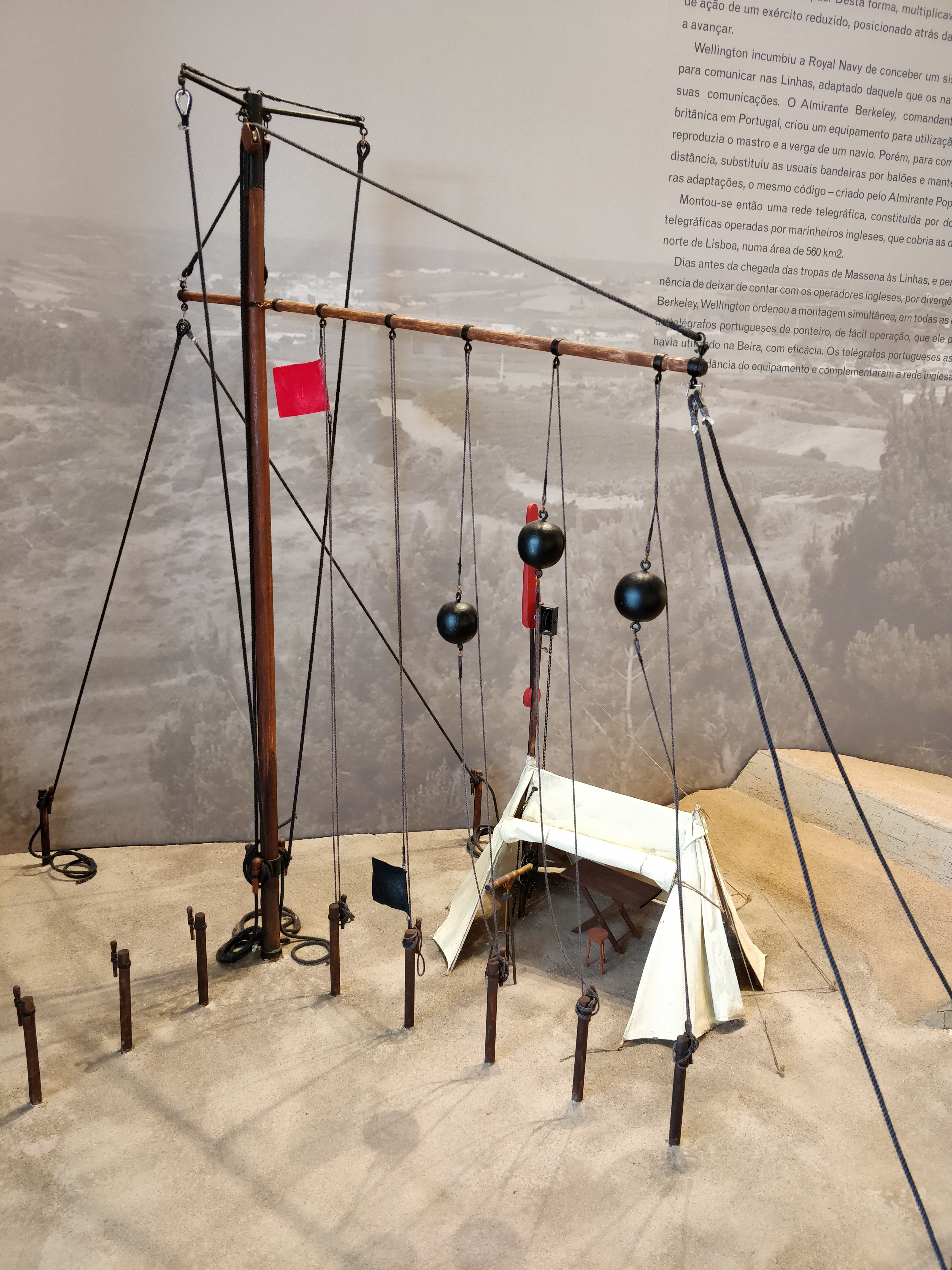 Model of signalling system used by Wellington during the Peninsular War. The method, based on the system used by the British Navy, enabled signals to be transferred rapidly from one fort to another